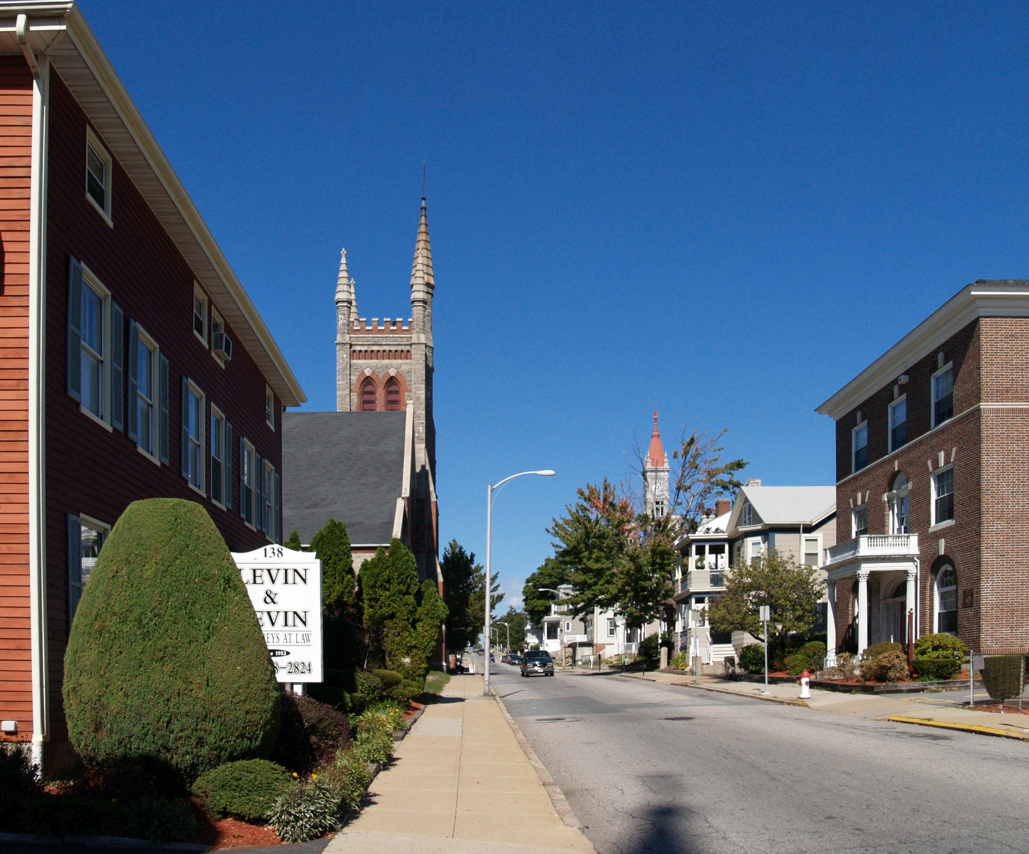 Rock Street, Highlands Historic District, Fall River, Massachusetts. The former Truesdale Clinic is on the right.